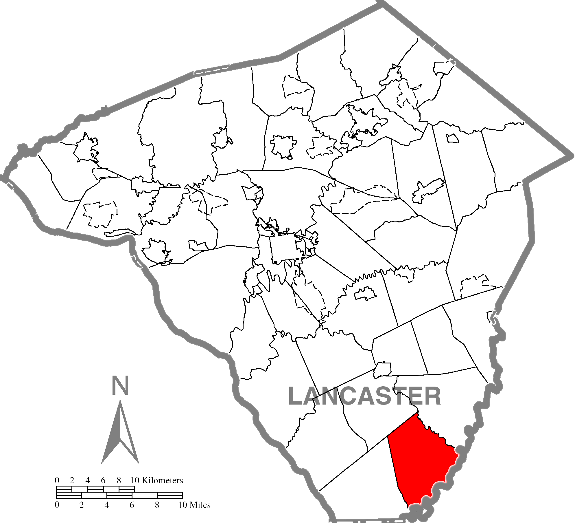 Highlighted Lancaster County map of Little Britain Township.